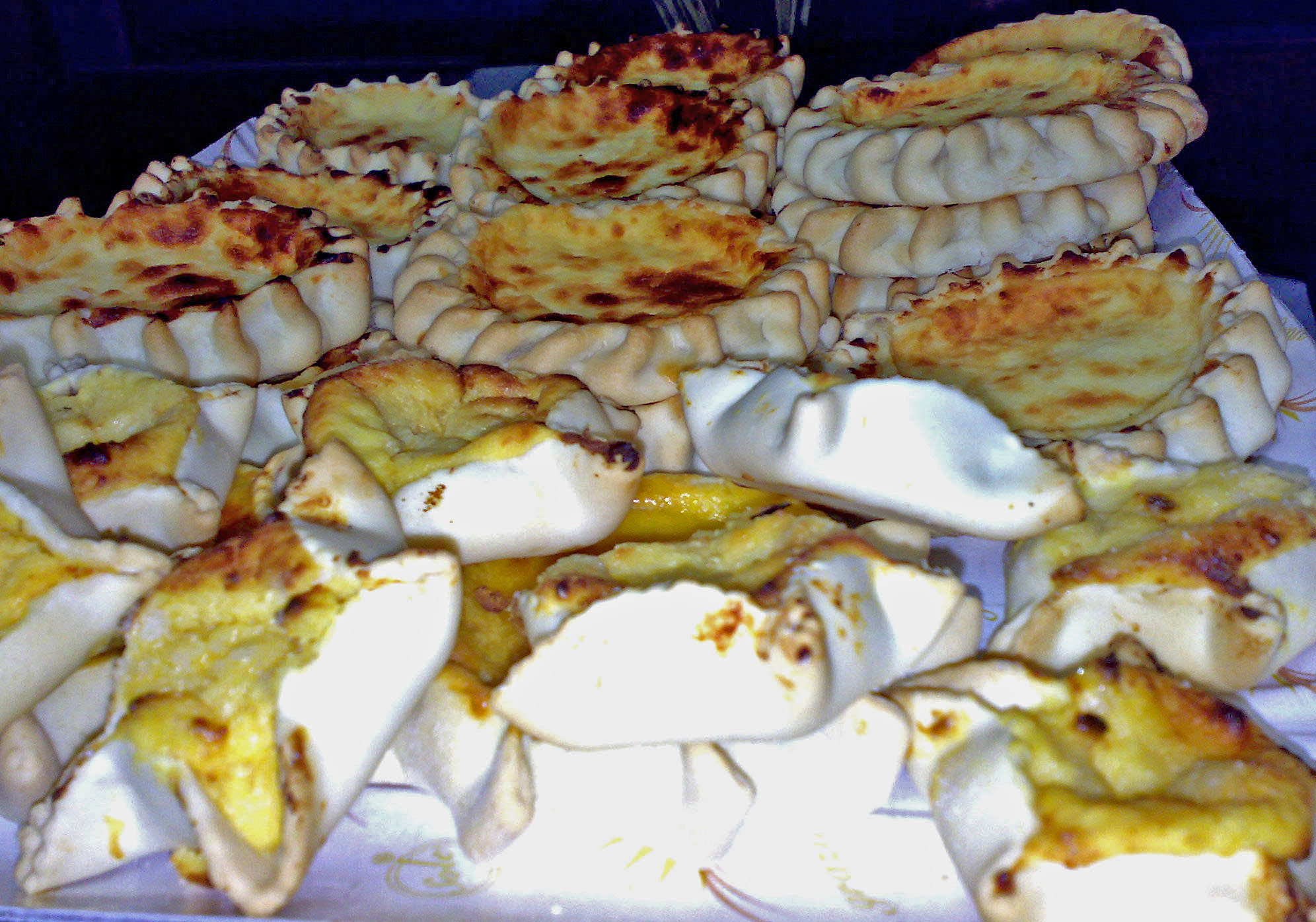 Pàrdulas - Sardinian cheese cakes.